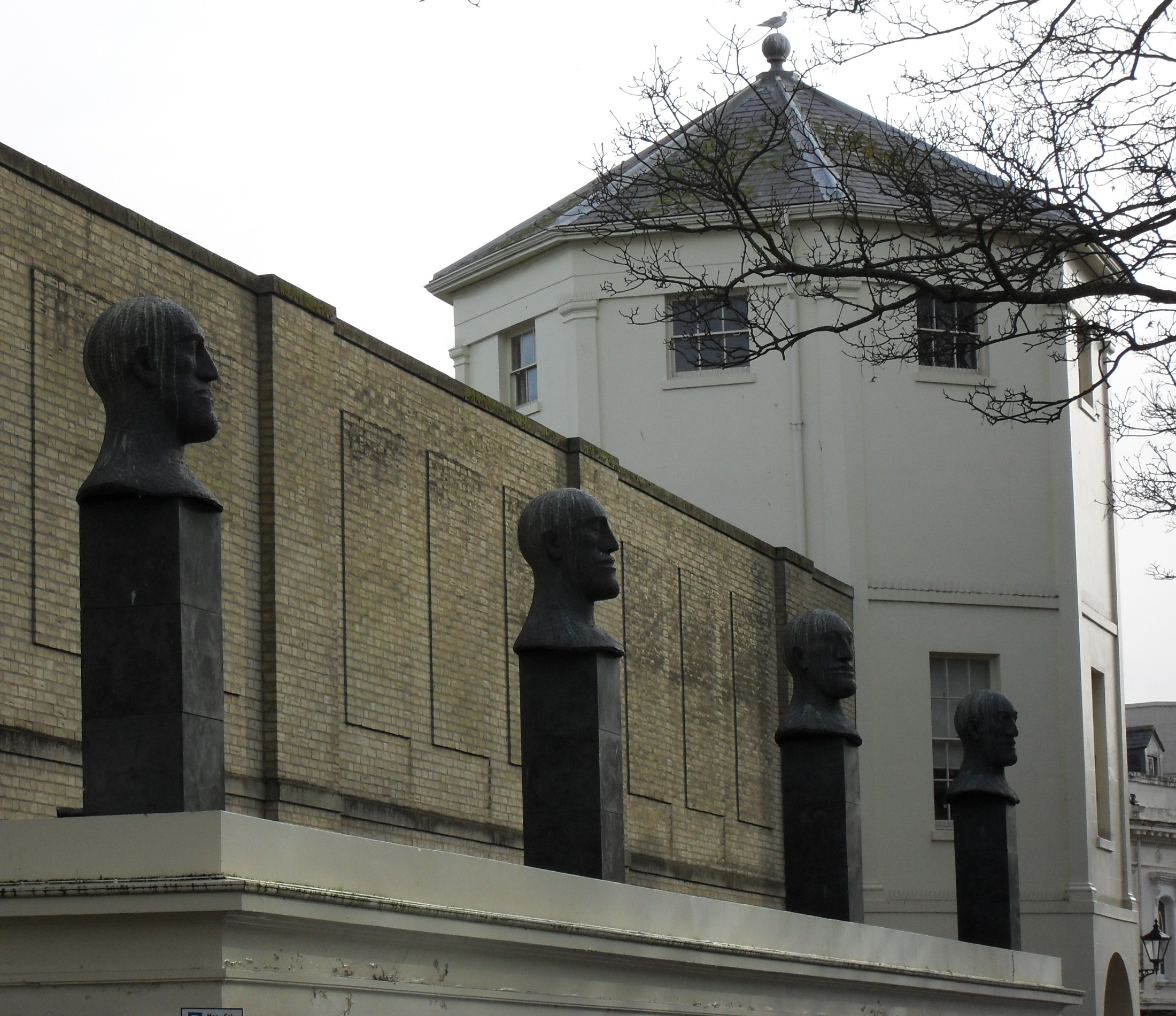 Dame Elizabeth Frink's "Desert Quartet" sculpture, on a loggia on top of Alexander Terrace, Worthing, West Sussex, England. Designed in 1989 for a new shopping arcade, this was one of Dame Frink's last works. Listed at Grade II* by English Heritage (Code 503260)